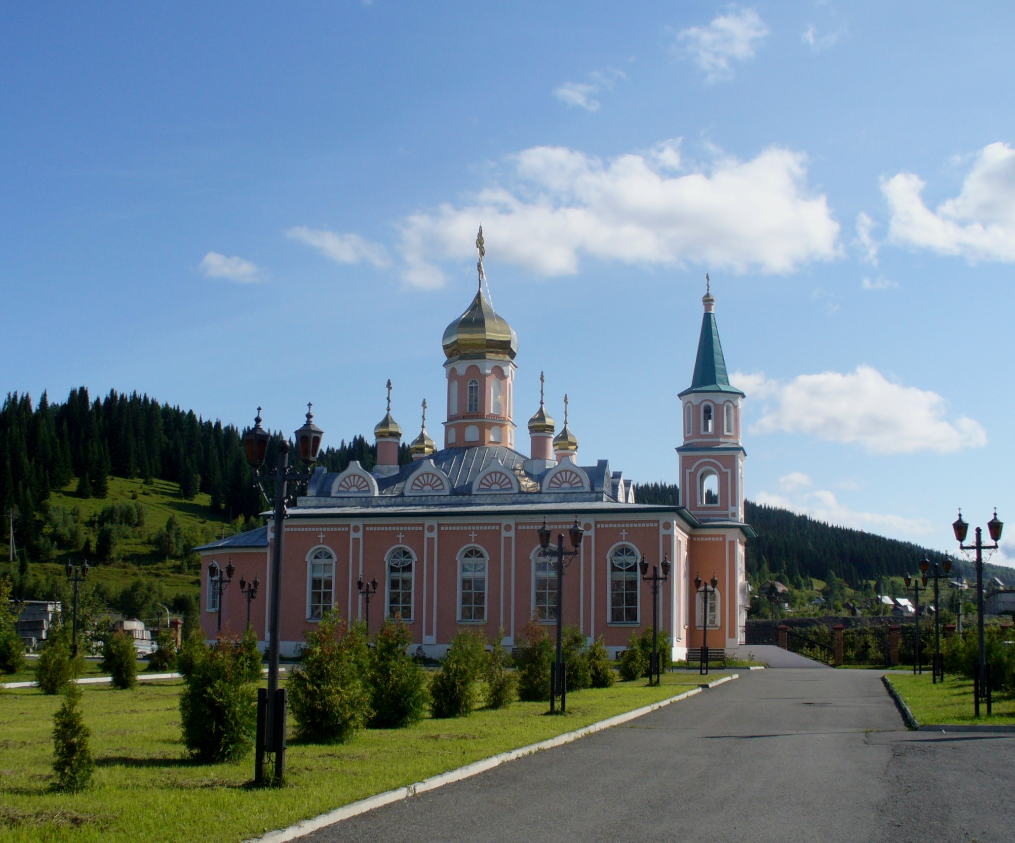 Church in Tashtagol, Kemerovo oblast, Russia